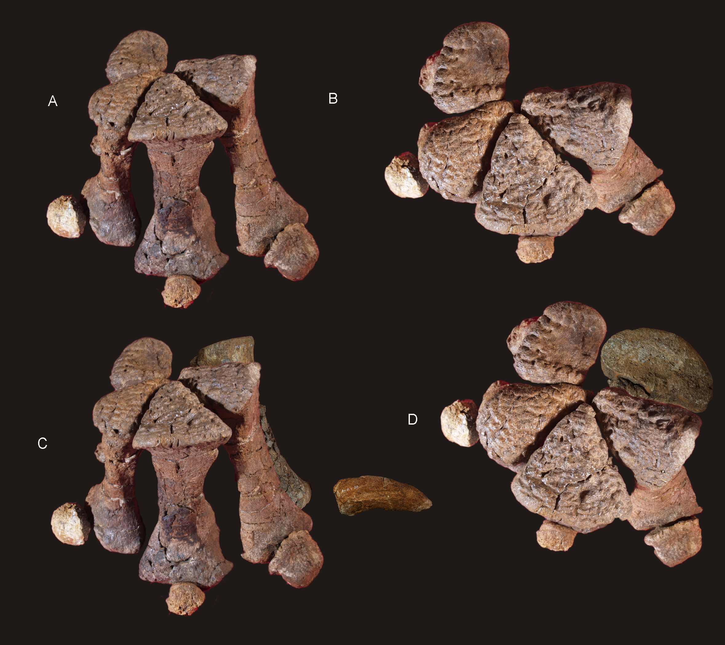 Manus reconstruction of Diamantinasaurus matildae. Preserved right manus in antero-external view (A) and proximal (B) views. Right manus reconstruction using left Mc I (reversed) and ungual in antero-external (C) and proximal (D) views.